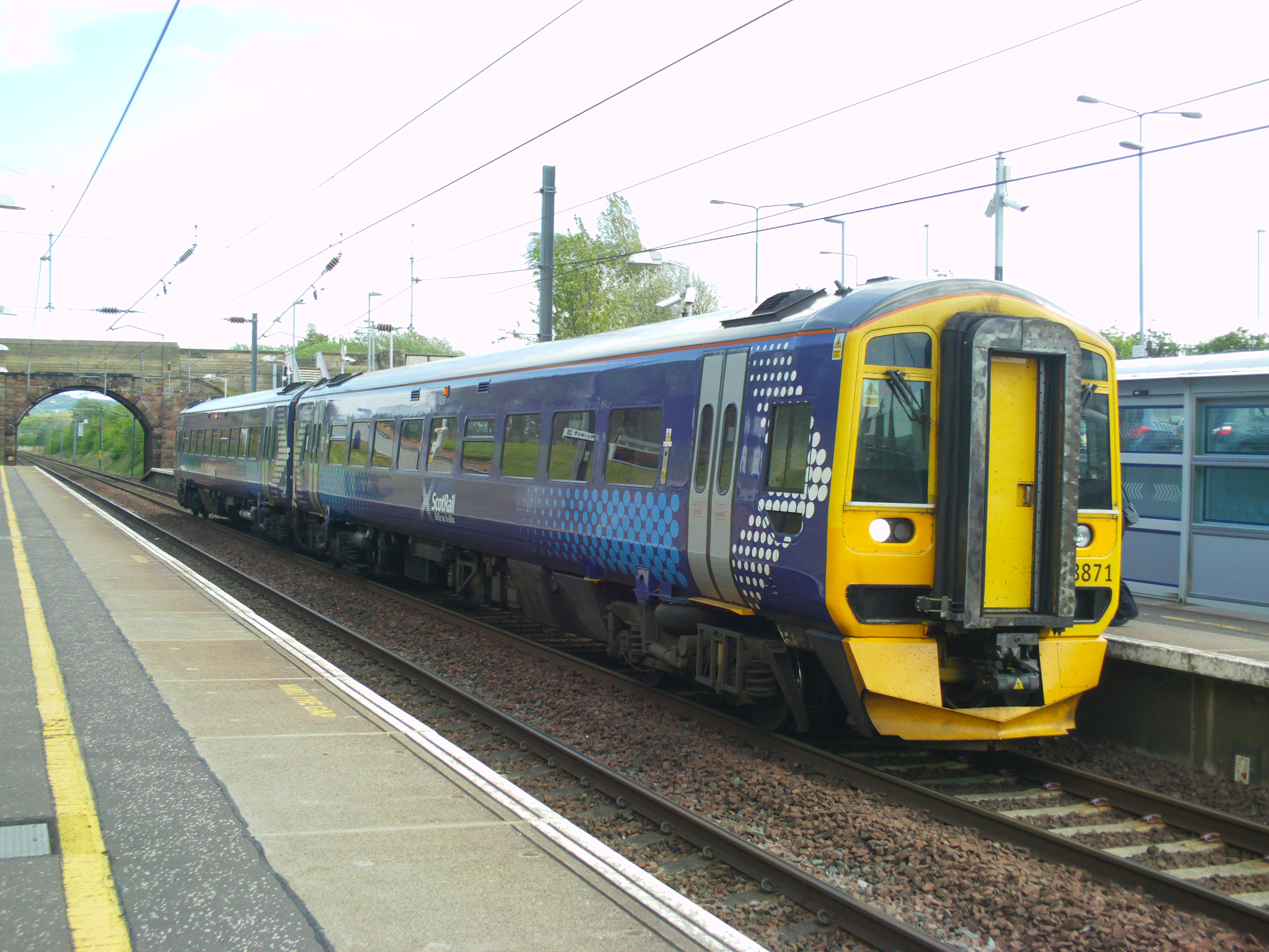 158871 stands at Musselburgh with a Service to Edinburgh Waverley